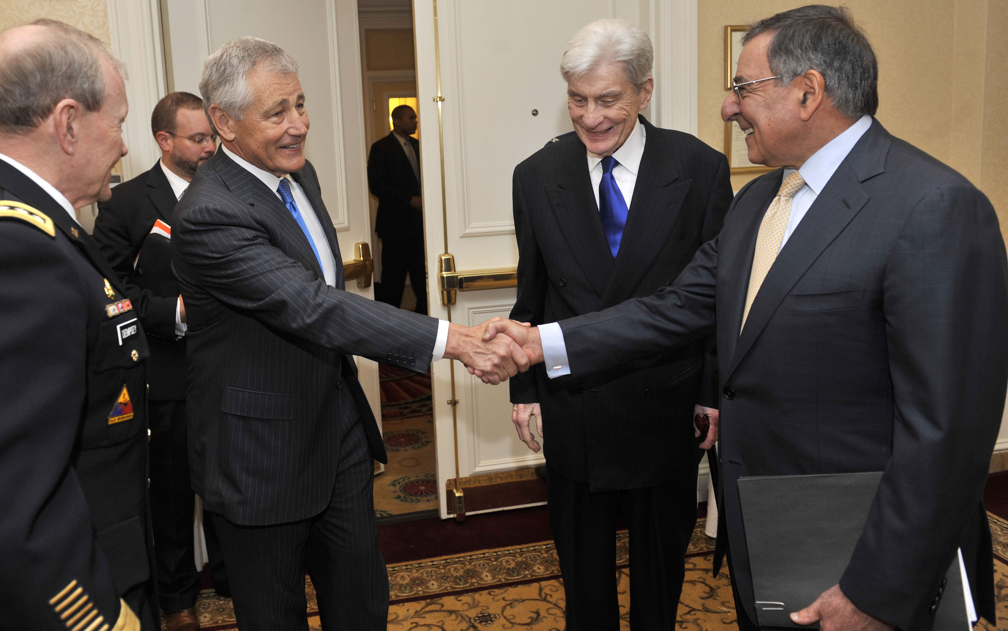 Former Sen. Chuck Hagel shakes hands with Secretary of Defense Leon E. Panetta shortly before Panetta and Chairman of the Joint Chiefs of Staff Gen. Martin E. Dempsey deliver remarks as the keynote speakers at the Forum on the Law of the Sea Convention held at the Willard Intercontinental Washington Hotel, Washington D.C, May 9, 2012. Former Sen. John Warner joined in the welcoming for the two Defense officials.